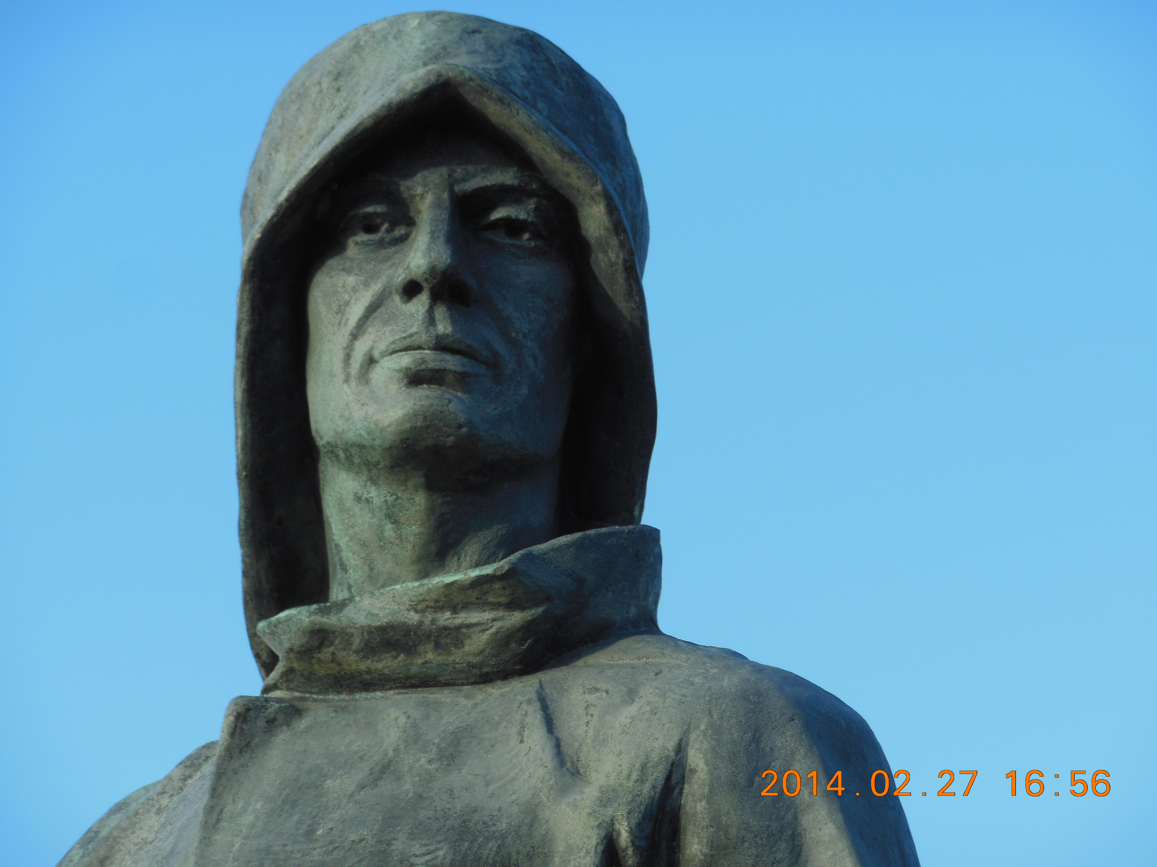 Memorial to fishermen lost at sea